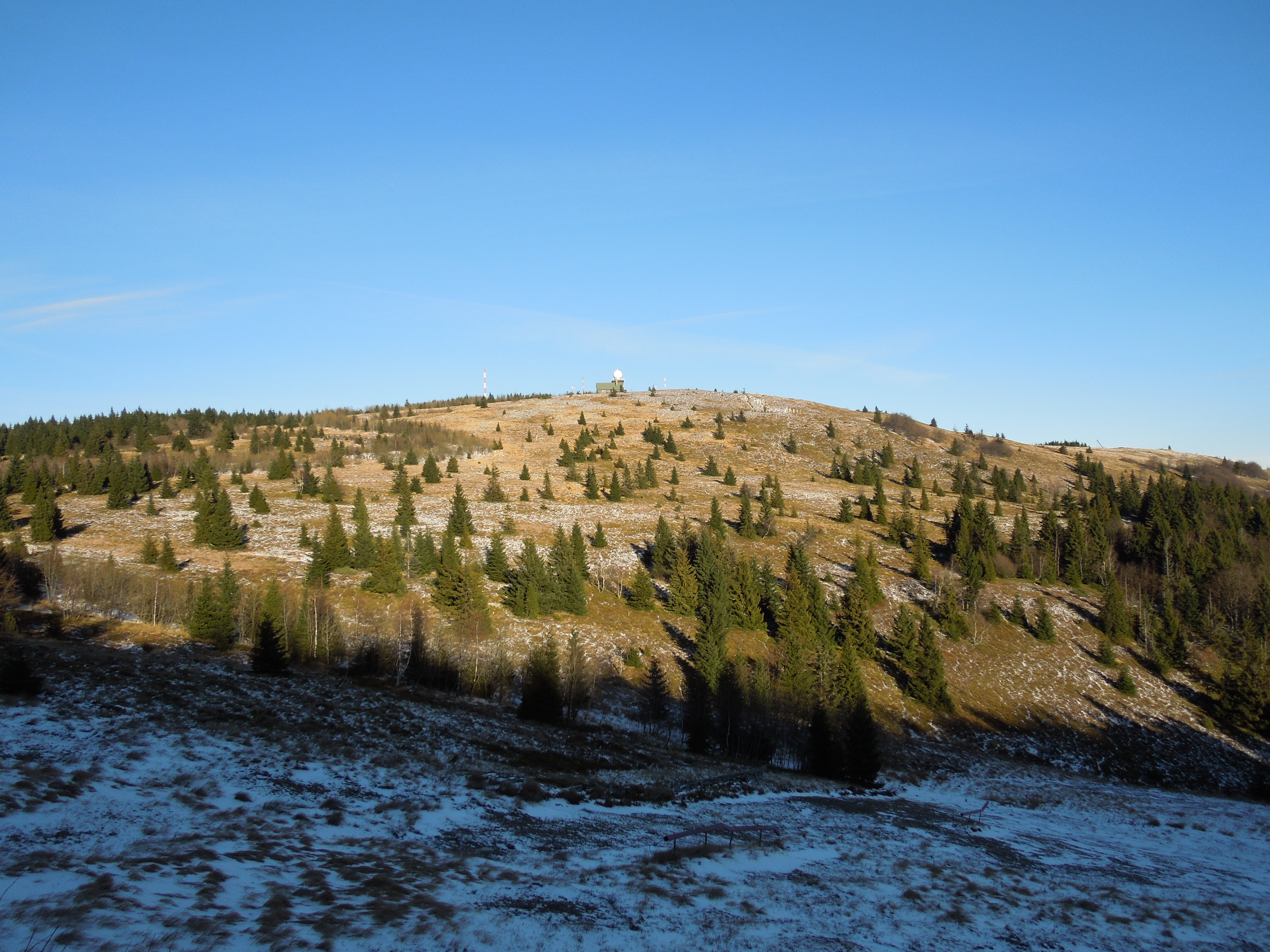 Peak Kojšovská hoľa